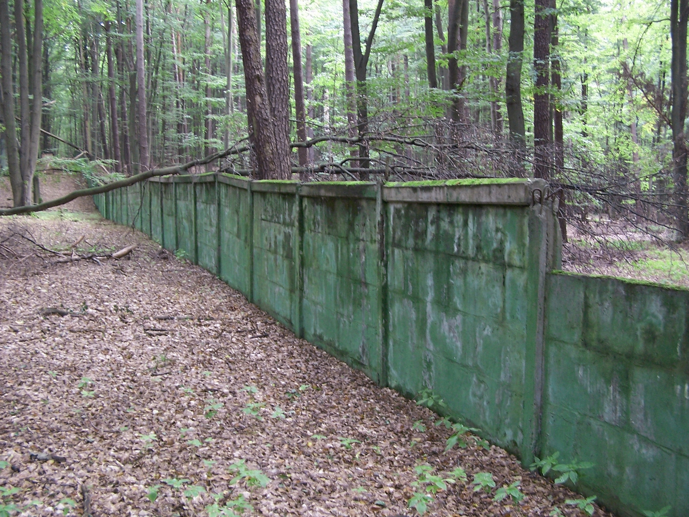 Wall of the Waldsiedlung (western part, original height)